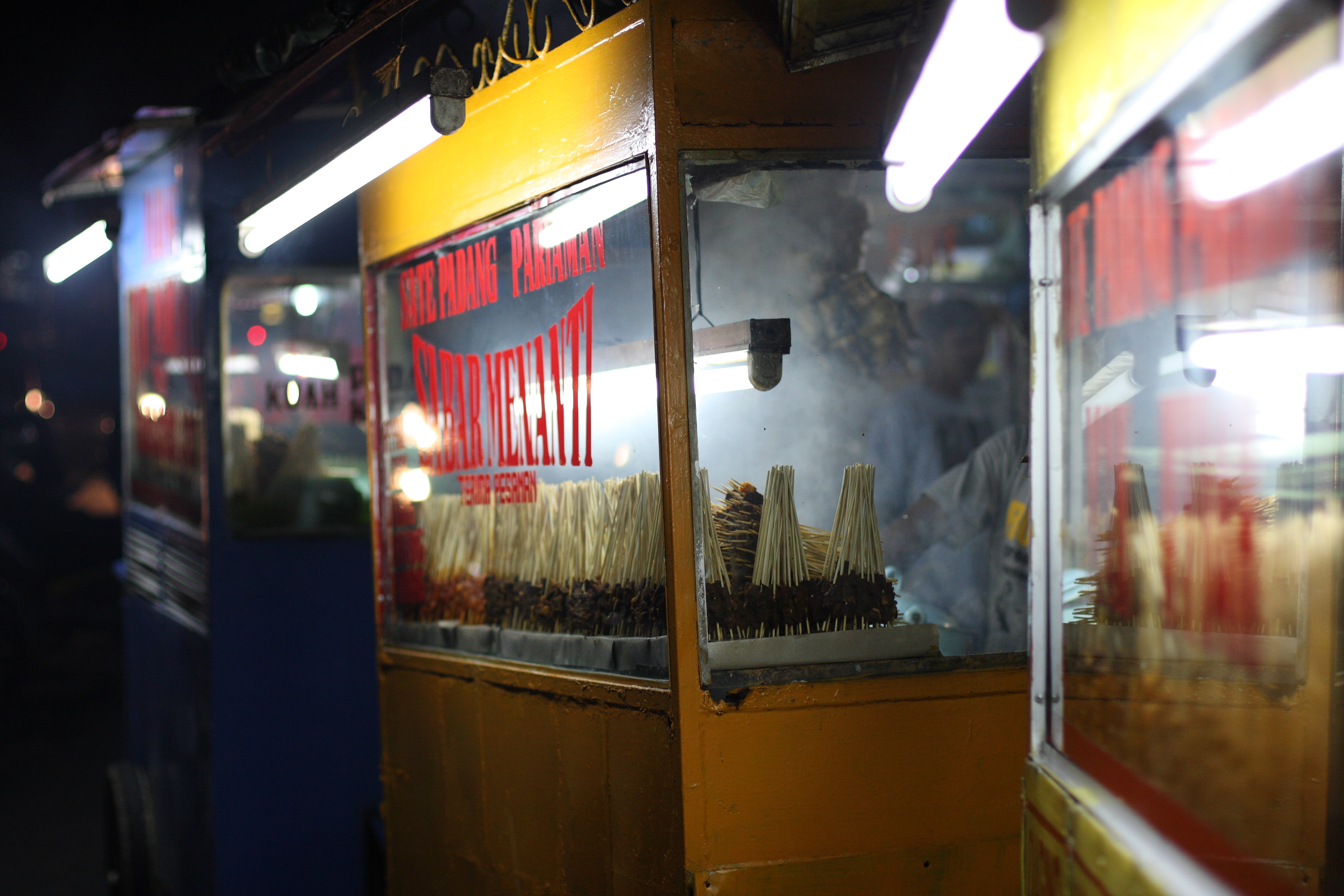 Sate Padang vendor in Batam, Indonesia.